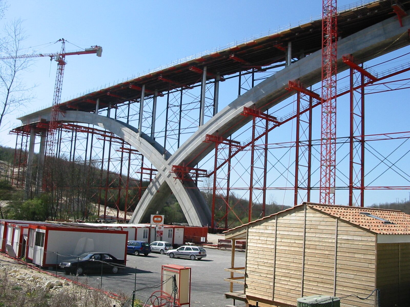 Construction of the viaduct of the eastern ring-road of Angoulême accross the Anguienne valley, Charente, southwestern France